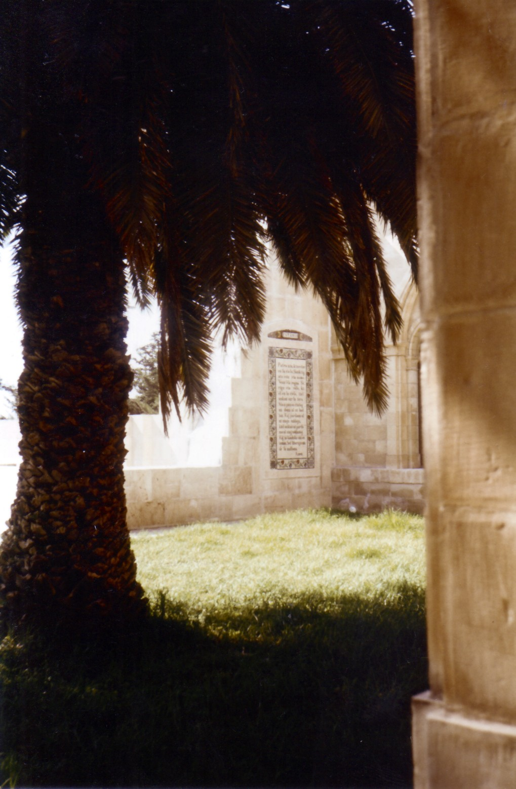 The Lord's prayer in Esperanto, in the Church of the Pater Noster in Jerusalem